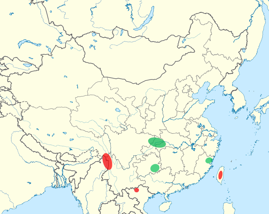 Distribution of Taiwania cryptomerioides, red: original distribution green: propably introduced